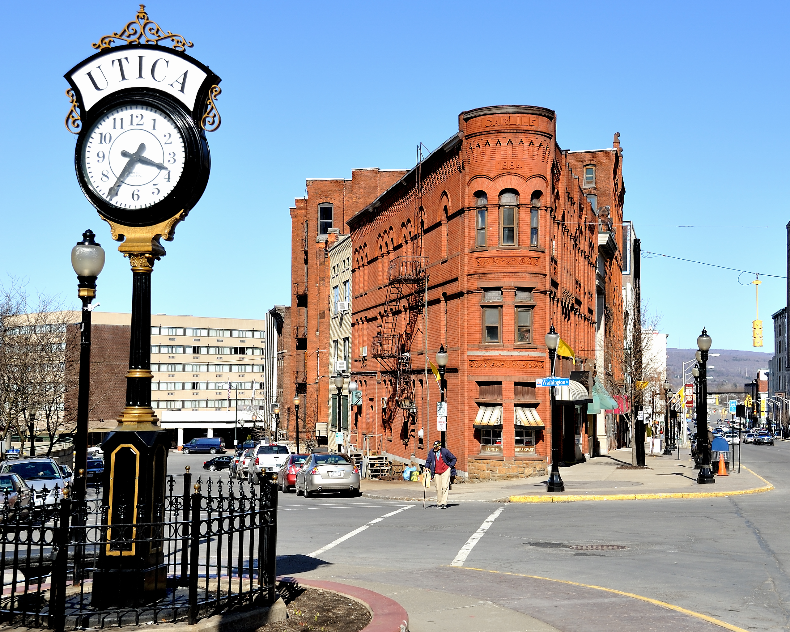 Utica, NY